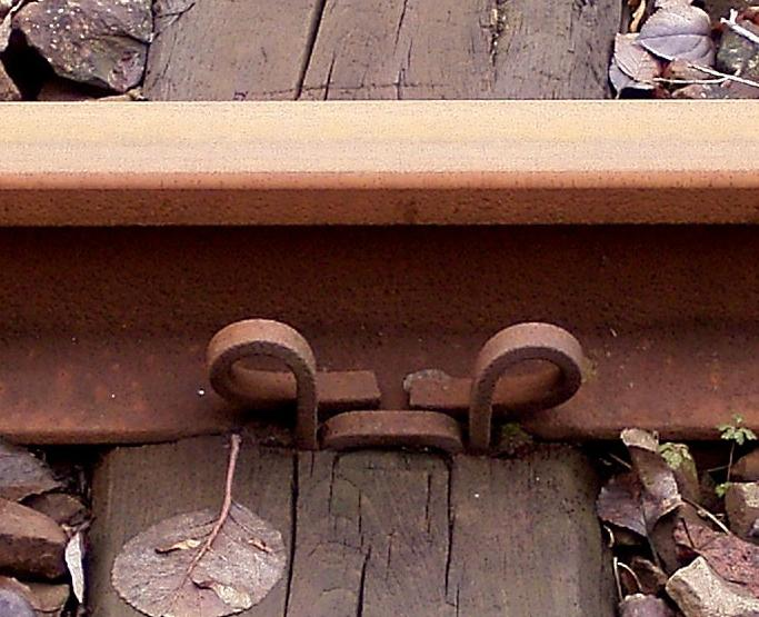 Rail fastening - Spring spike type, unknown type or manufacturer